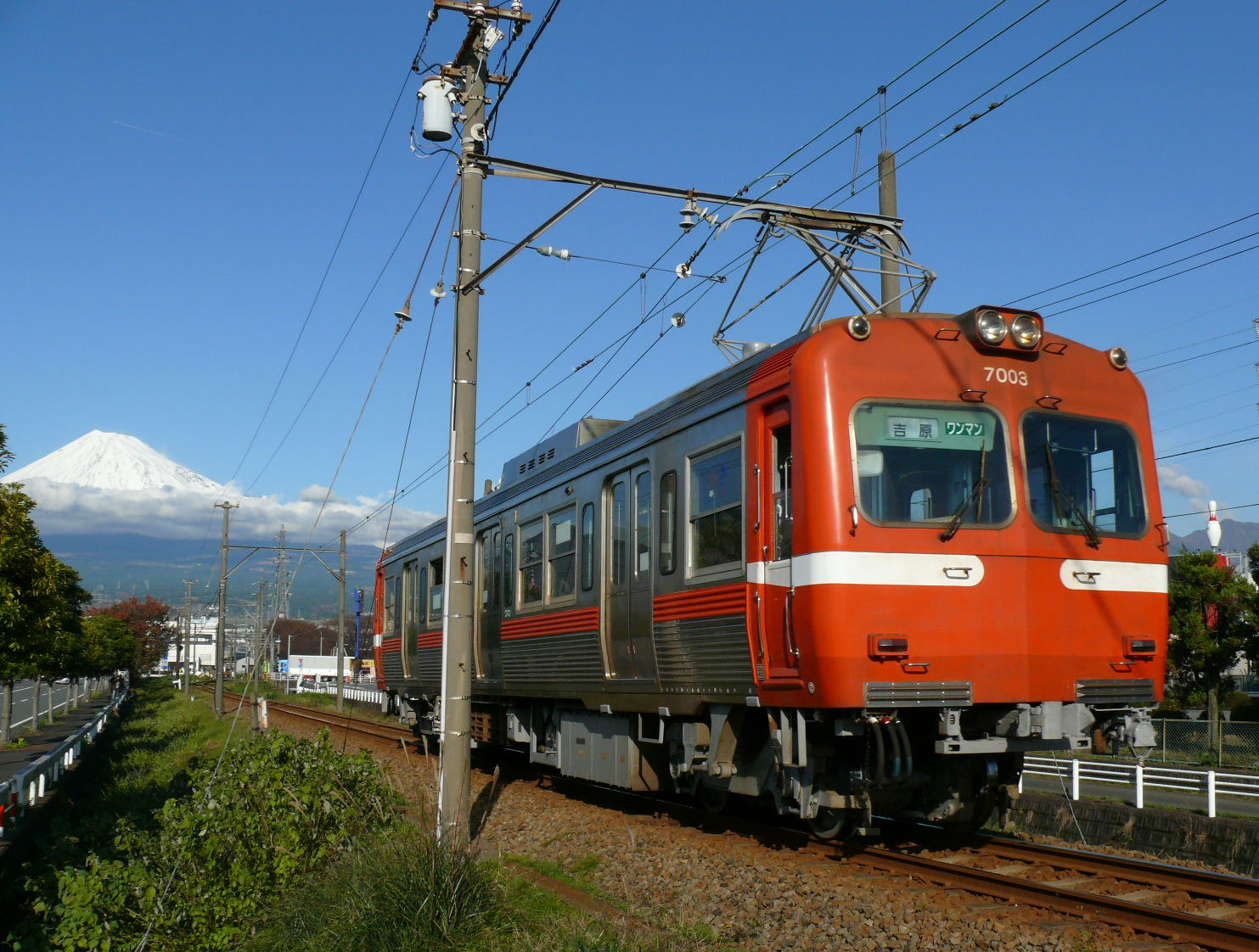 Gakunan Railway Line. (Japan Shizuoka of Fuji City).